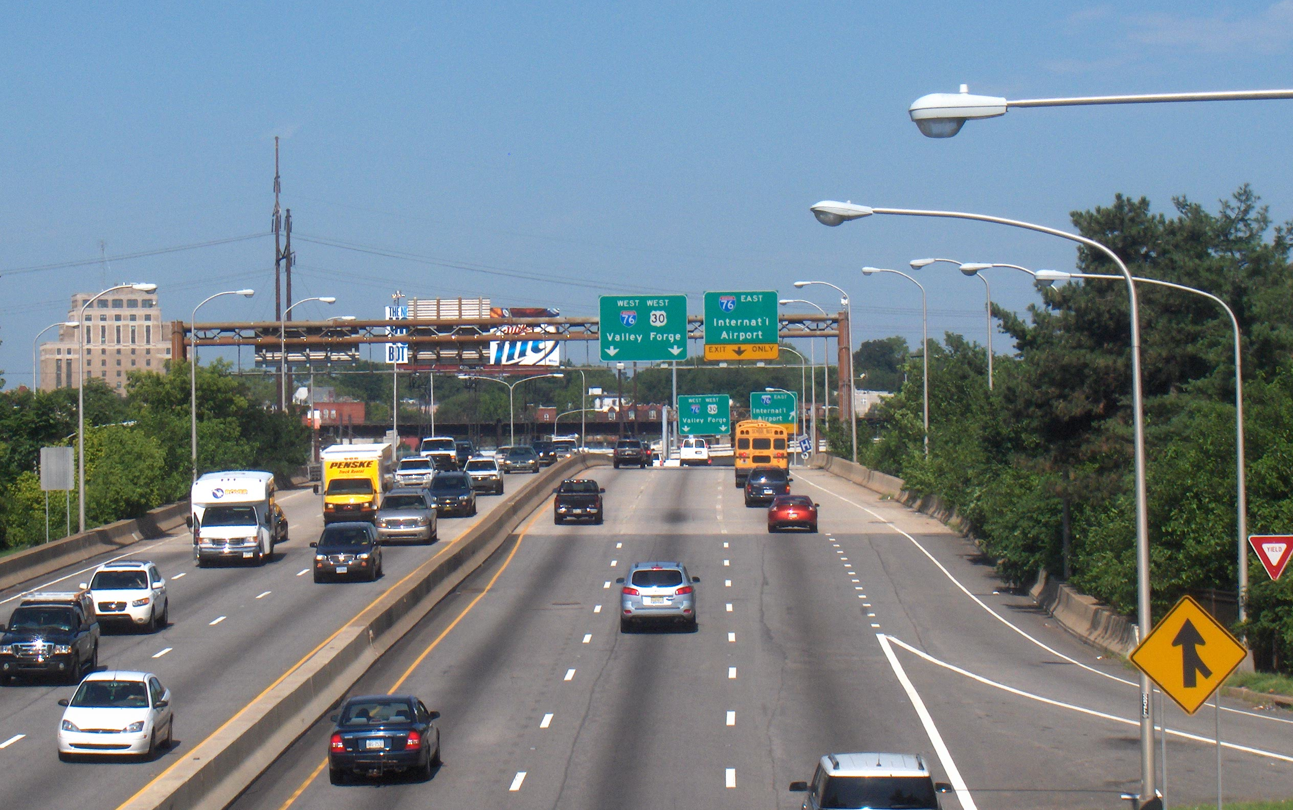 Vine Street Expressway Bridge, built 1959, reconstructed 1989, carries I-676 (Vine Street Expressway) over the Schuylkill River, CSX tracks, N. 24th St. ramp in Philadelphia, looking west from North 22nd Street overpass